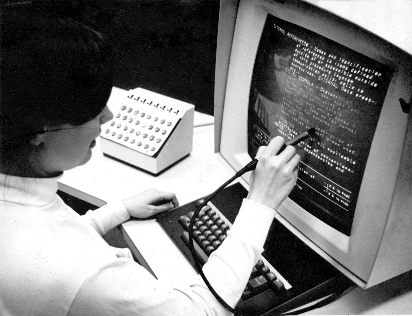 Original photo by Greg Lloyd 1969, used with permission. Photo of the Hypertext Editing System (HES) console in use at Brown University, circa October 1969. HES was developed by Prof Andries (Andy) van Dam, Ted Nelson, David Rice, Steve Carmody, Walter Gross, and others as an IBM sponsored research project. The HES software was distributed without charge by IBM and used by researchers and NASA. The photo shows HES on an IBM 2250 Model IV Graphics Display Unit, including lightpen and programmed function keyboard, channel coupled to Brown's IBM 360 mainframe.